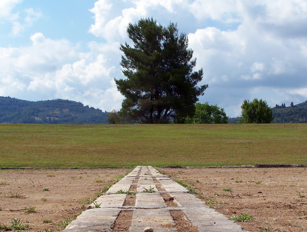 this is the marble start/finish line at the original olympic stadium